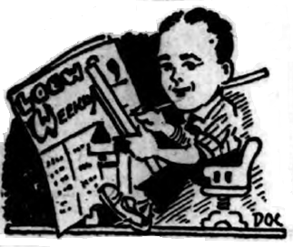 Self portrait of Doc Rankin to accompany article "Ainsworth H. Rankin". Scanned from an old (1921) newspaper.;Other information: this is a cleaned-up version